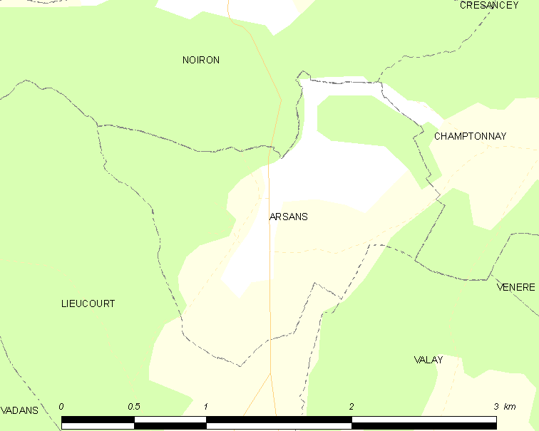 Map of French municipality